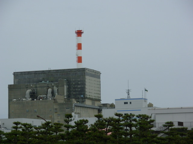 Tokai NPP, Unit one, a single reactor Magnox power plant.